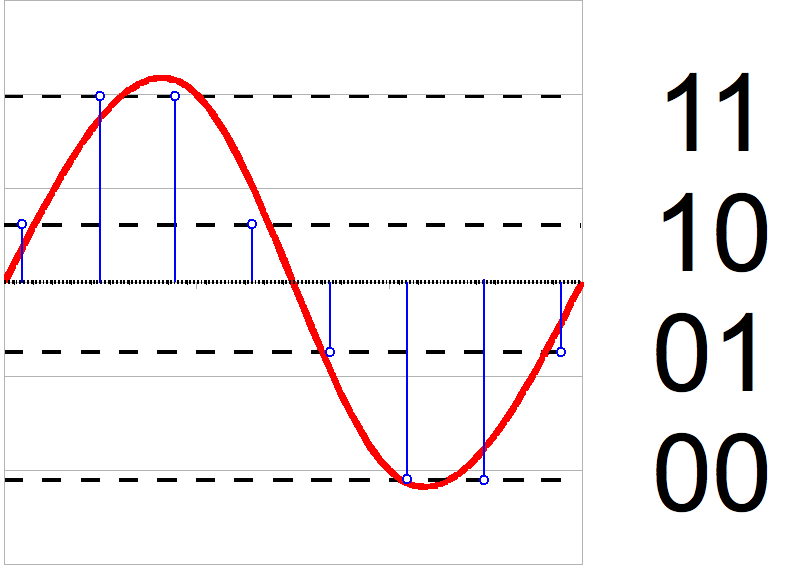 2-bit resolution with four levels of quantization, compared with an analog sine wave. Corrected from five level image in source: Hodgson, Jay (2010). Understanding Records, p.56. ISBN 978-1-4411-5607-5. He adapted from Franz, David (2004). Recording and Producing in the Home Studio, p.38-9. Berklee Press.